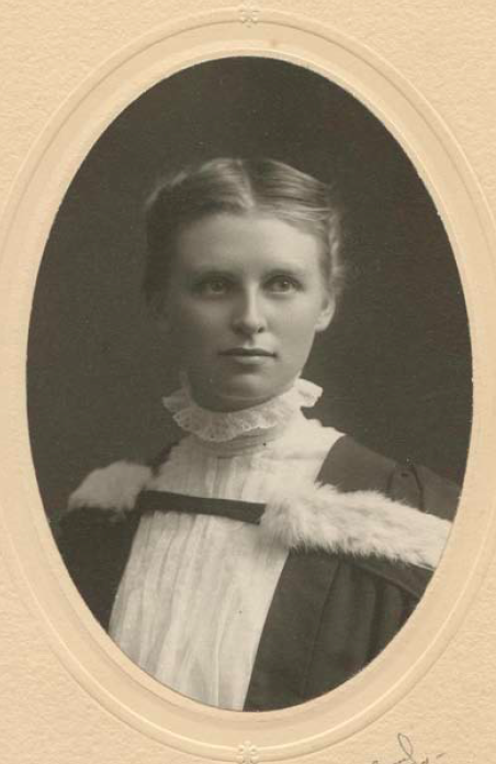 Kate Rice was a famed female prospector, trapper, musher, and adventurer who worked in Northern Manitoba from 1914 to the 1960s.